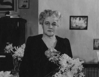 Photograph of the Finnish actress Lyyli Erjakka (1881–1957).